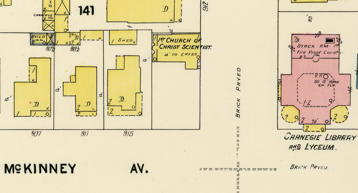 1907 Sanborn map. Houston, Texas. McKinney Street at Travis Street, Houston, Texas. Includes Carnegie Library and Houston Lyceum.